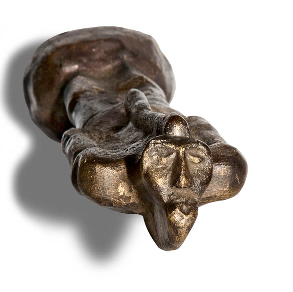 Sfinks Award the fandom prize.